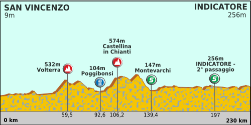 Tirreno Adreatico 2012 stage 2